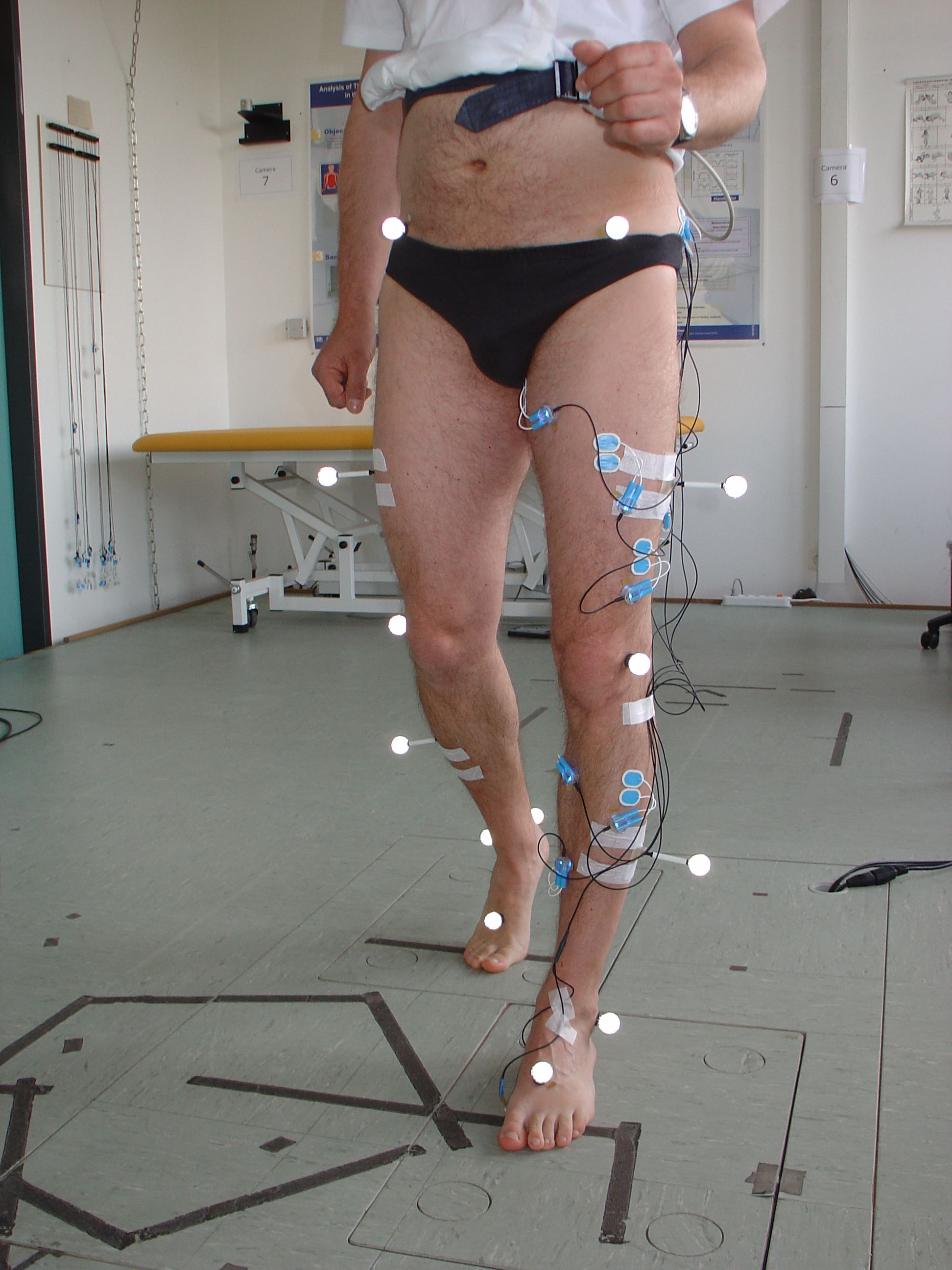 Marker (white) for kinematic analysis and electrodes + preamplifiers (blue)for EMG (muscleactivity) analysis